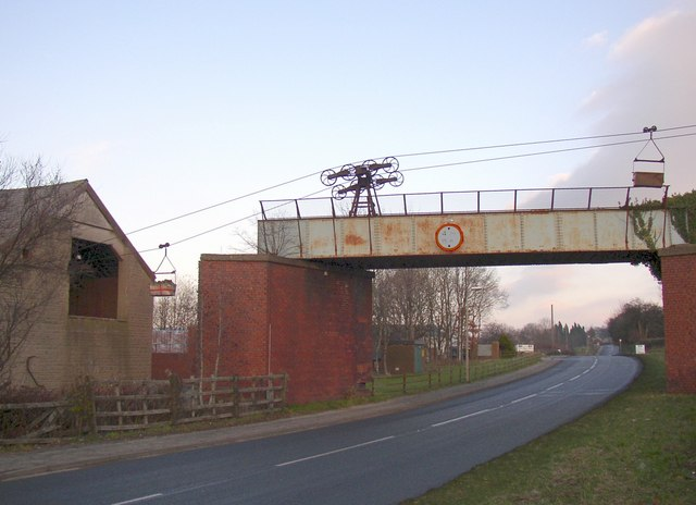 Aerial ropeway, Claughton Here the ropeway enters the brickworks. The next load is dedicated to the England football team.